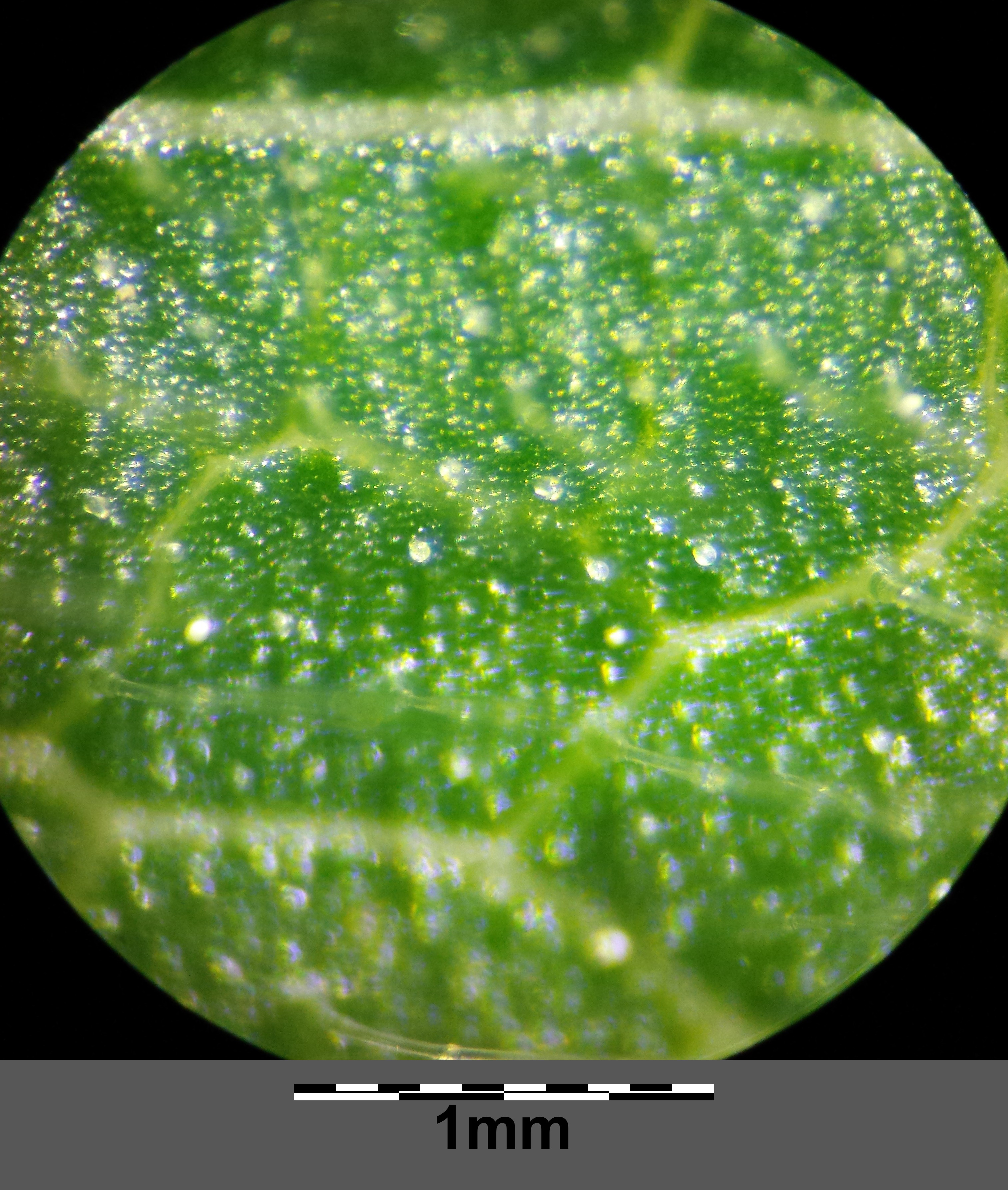 Top side of leaf with glands Taxonym: Inula hirta ss Fischer et al. EfÖLS 2008 ISBN 978-3-85474-187-9 Location: semi-dry grasslands and wine yards to the north of Oberthern, municipality Heldenberg, district Hollabrunn, Lower Austria - ca. 300 m ü. A. Habitat: border of a shrubbery